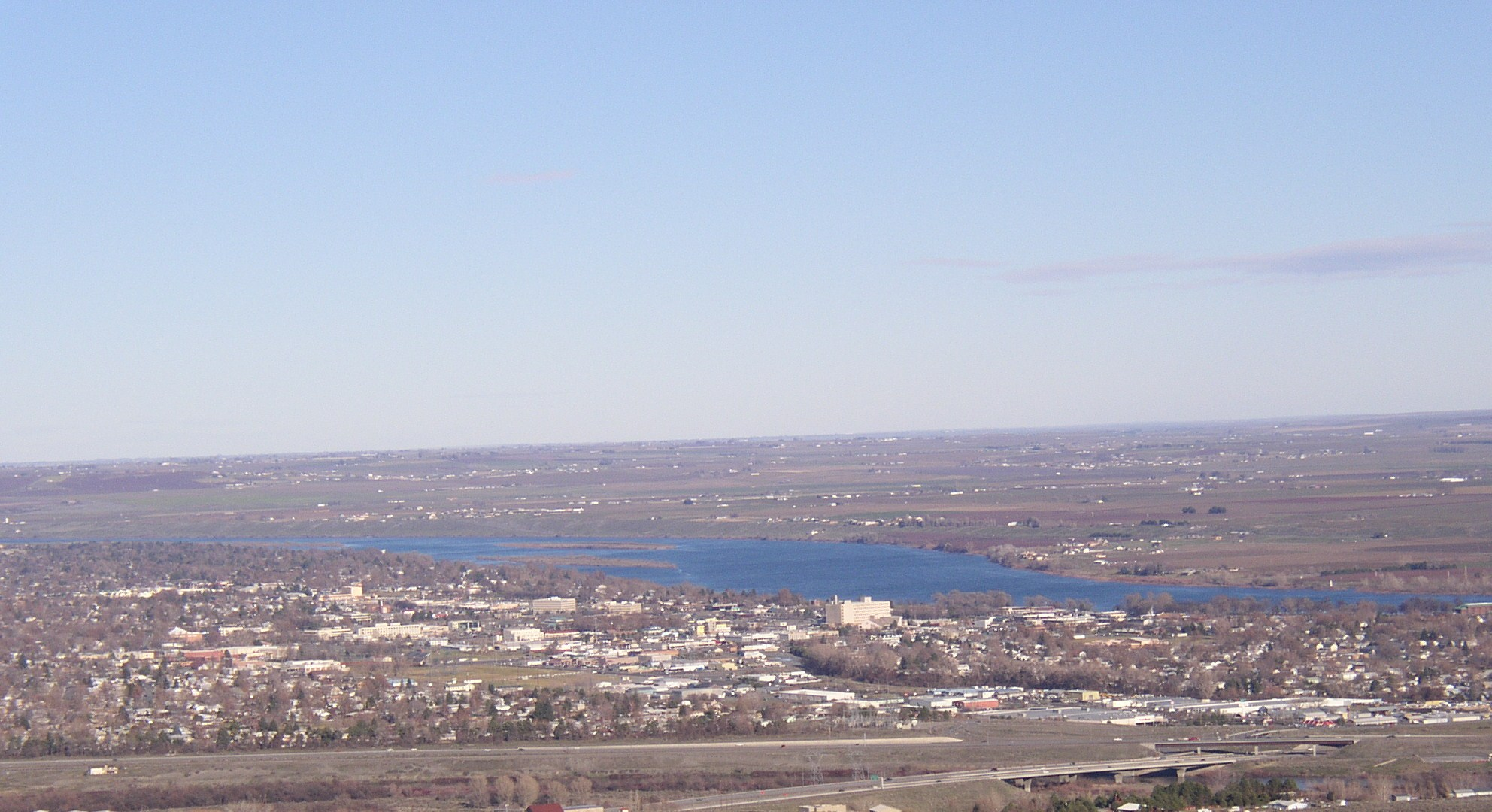 Richland, Washington on a lovely 50°F Sunday. Richland center as seen from the Badger Mountain Centennial Preserve/ The 1.2-mile long, 800-foot in elevation trail on Badger Mountain is a new reserve within the city boundary or Growth Management Area for Richland. It was built by Volunteers who broke new trail by hand in October 2005. Community members from Richland and the surrounding area secured protection for this important area above the Tri-Cities. The Friends of Badger Mountain acquired the property, preserving it for the public. The Trust for Public Land, Benton County, the City of Richland and the Friends of Badger Mountain worked together to buy 574 acres to create the Badger Mountain Centennial Preserve, to be maintained in its natural state.